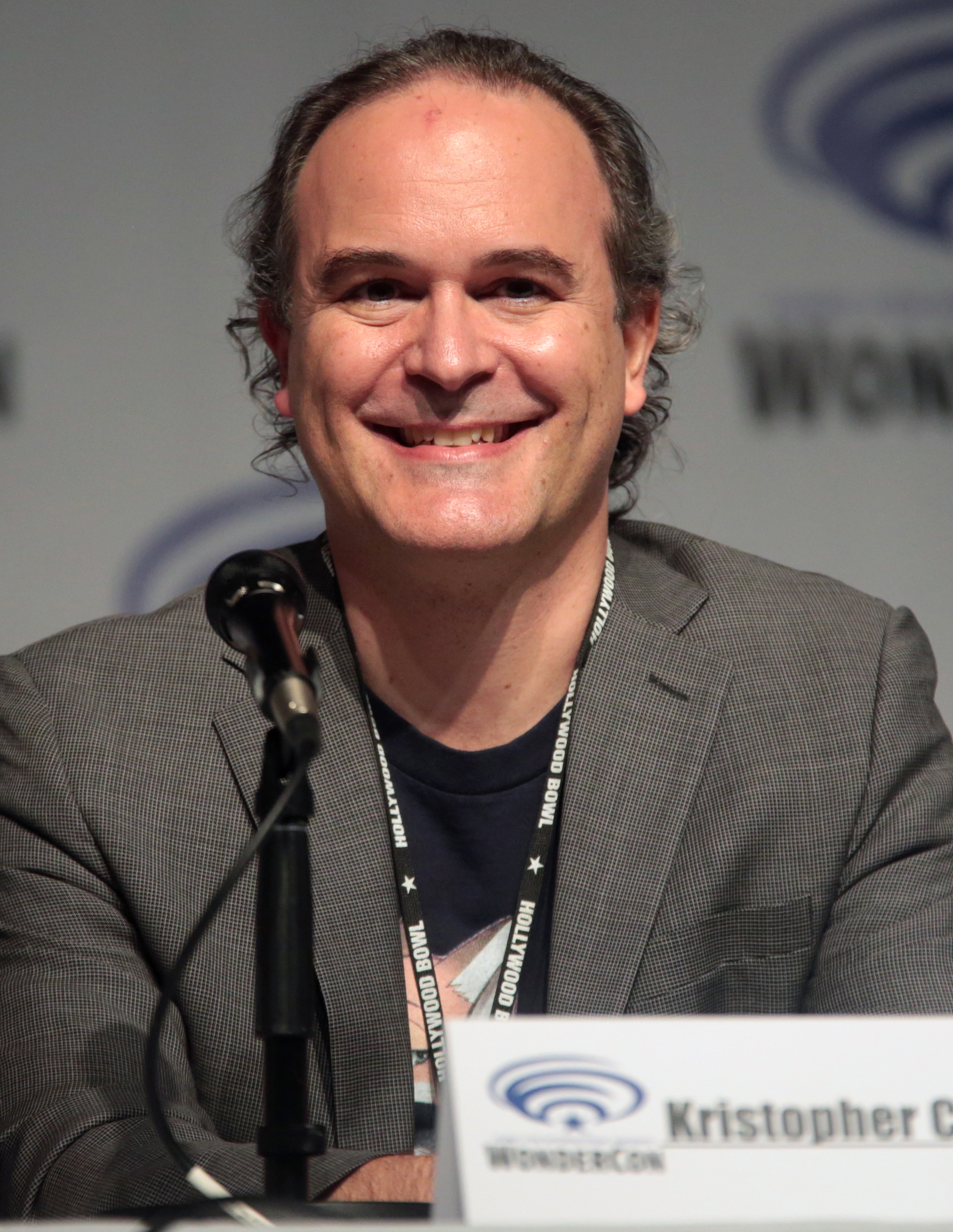 Kristopher Carter speaking at the 2017 WonderCon in Anaheim, California.